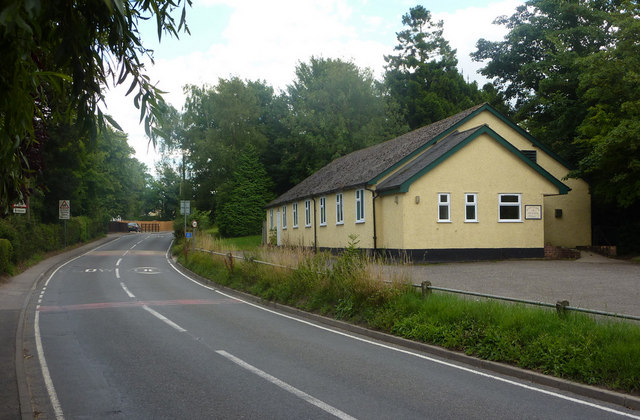 Stonham Aspal Pre School The churchyard is immediately beyond the building with the main village school opposite.